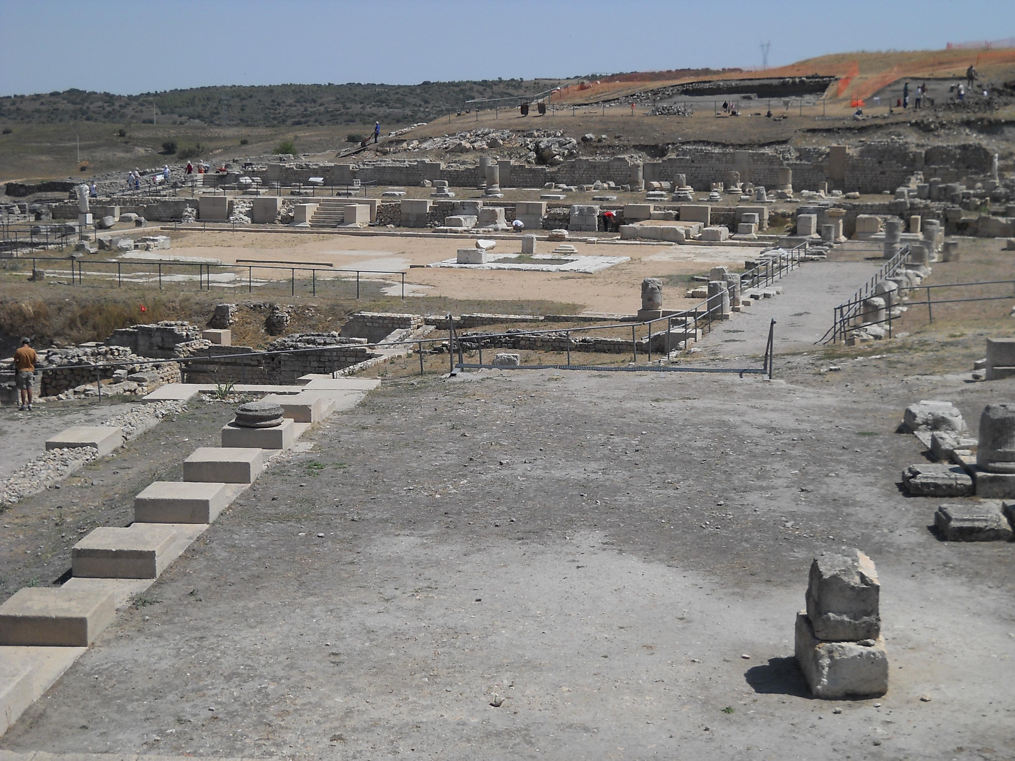 Roman forum, Segóbriga, Cuenca, Spain